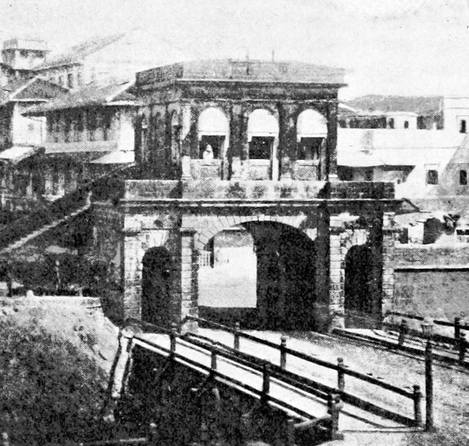 Image taken from: Title: "Bombay and Western India. A series of stray papers" Author: DOUGLAS, James - of Bombay Shelfmark: "British Library HMNTS 010056.h.10.", "British Library OC ORW.1986.a.2990" Volume: 01 Page: 258 Place of Publishing: London Date of Publishing: 1893 Publisher: Sampson Low & Co. Issuance: monographic Identifier: 000973604 Note: The colours, contrast and appearance of these illustrations are unlikely to be true to life. They are derived from scanned images that have been enhanced for machine interpretation and have been altered from their originals. If you wish to purchase a high quality copy of the page that this image is drawn from, please order it here. Please note that you will need to enter details from the above list - such as the shelfmark, the page, the book's volume and so on - when filling out your order. Explore: Find this item in the British Library catalogue, 'Explore'. Open the page in the British Library's itemViewer (page: 258) Download the PDF for this book Click here to see all the illustrations in this book and click here to browse other illustrations published in books in the same year. Please click on the tags shown on the right-hand side for other ways to browse the illustrations.